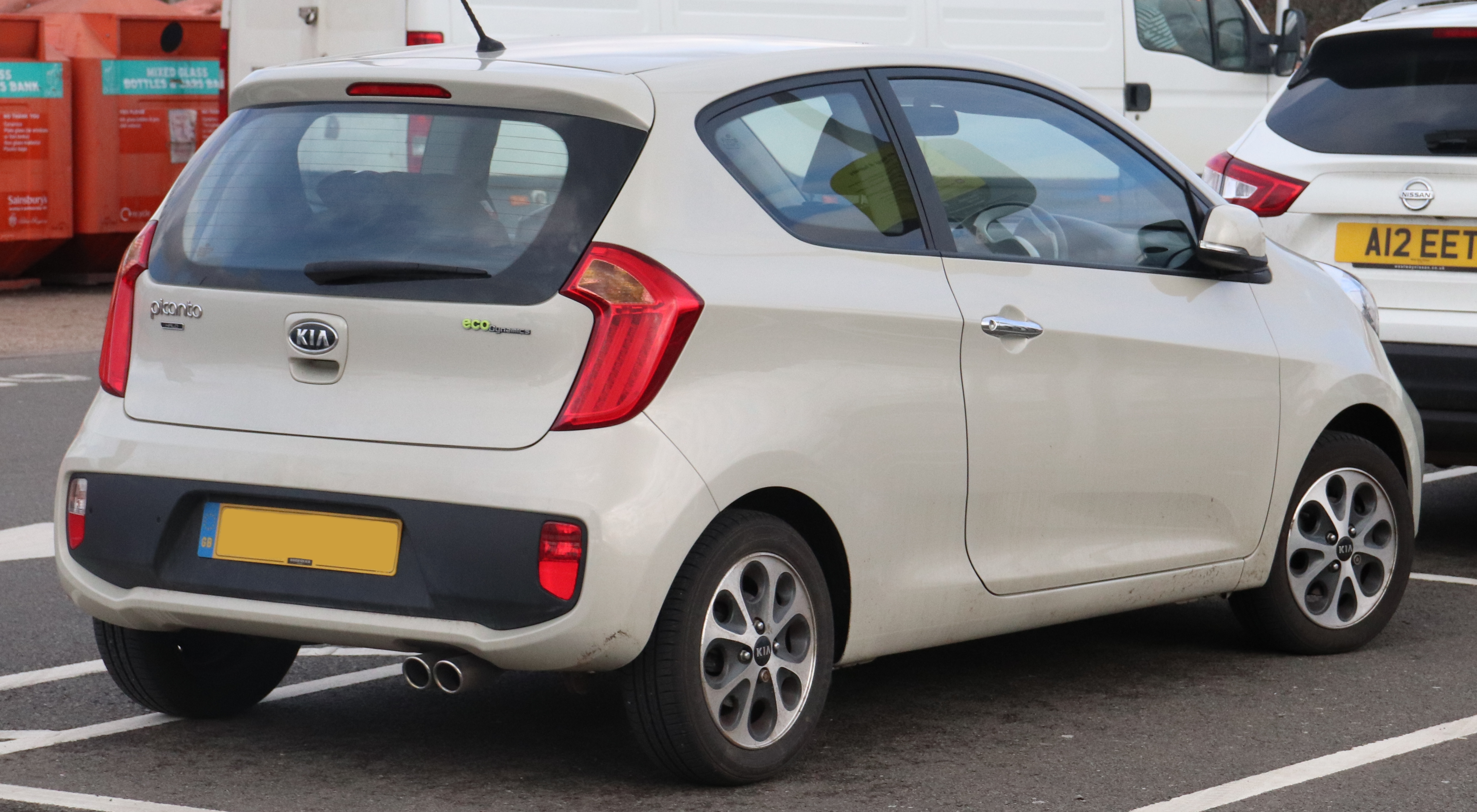 2012 Kia Picanto Halo Ecodynamics 1.2 Rear Taken in Leamington Spa